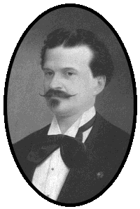 Eduard Strauss (1835-1916). Source (Copyright expired)